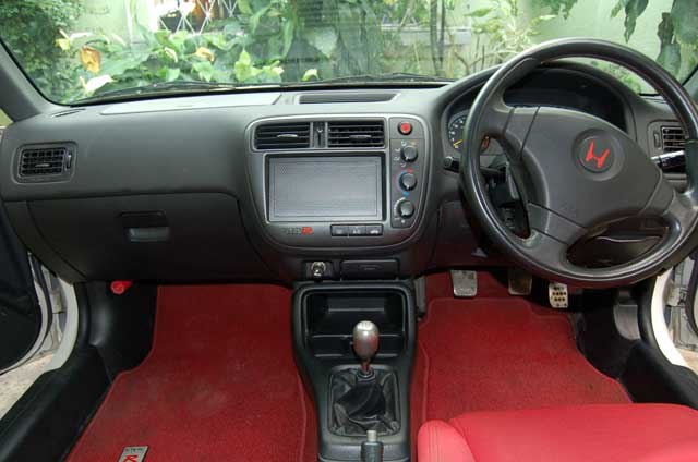 This image was copied from en. The original description was